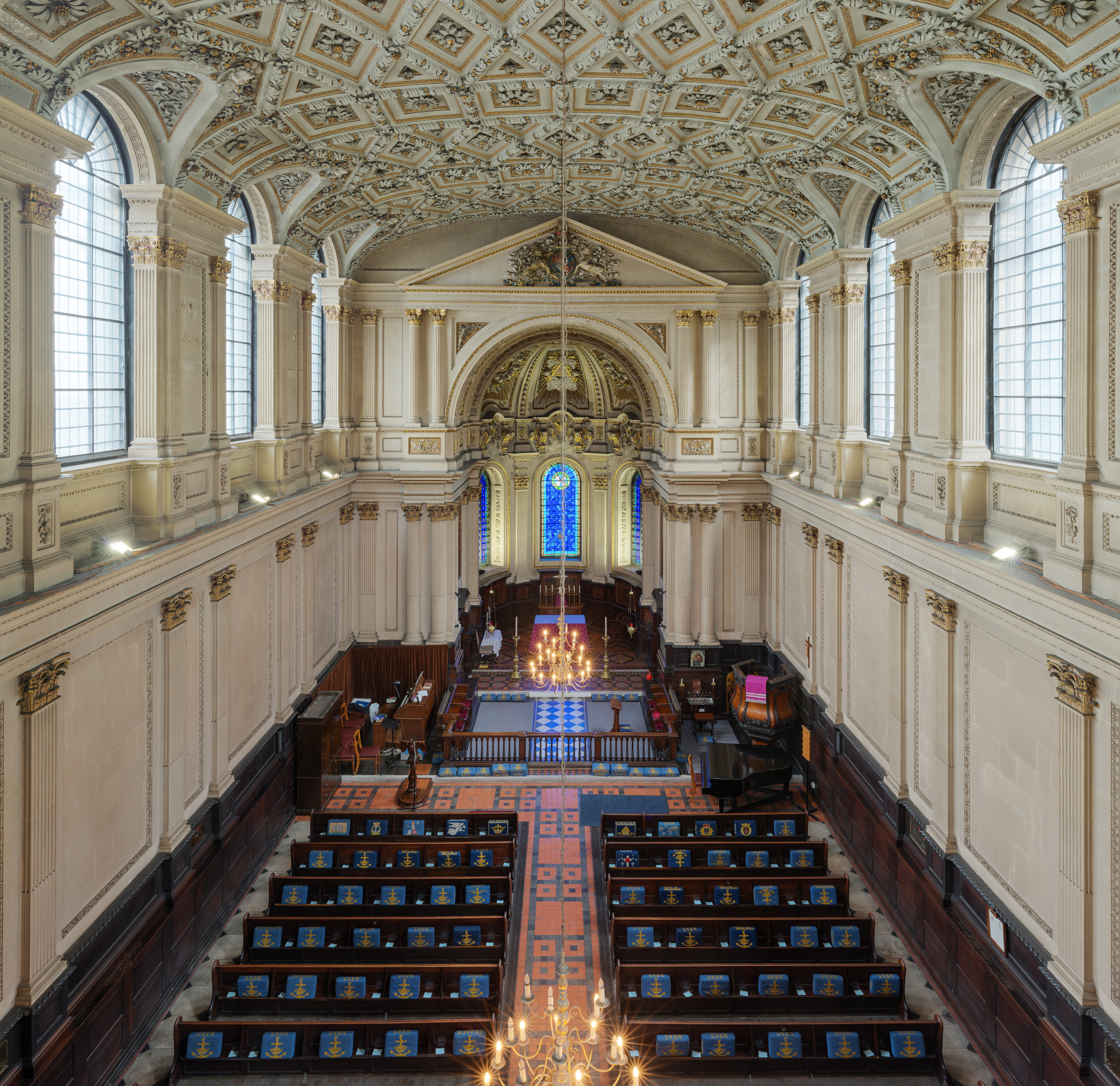 St Mary le Strand Church as viewed from the upper balcony in London, England.